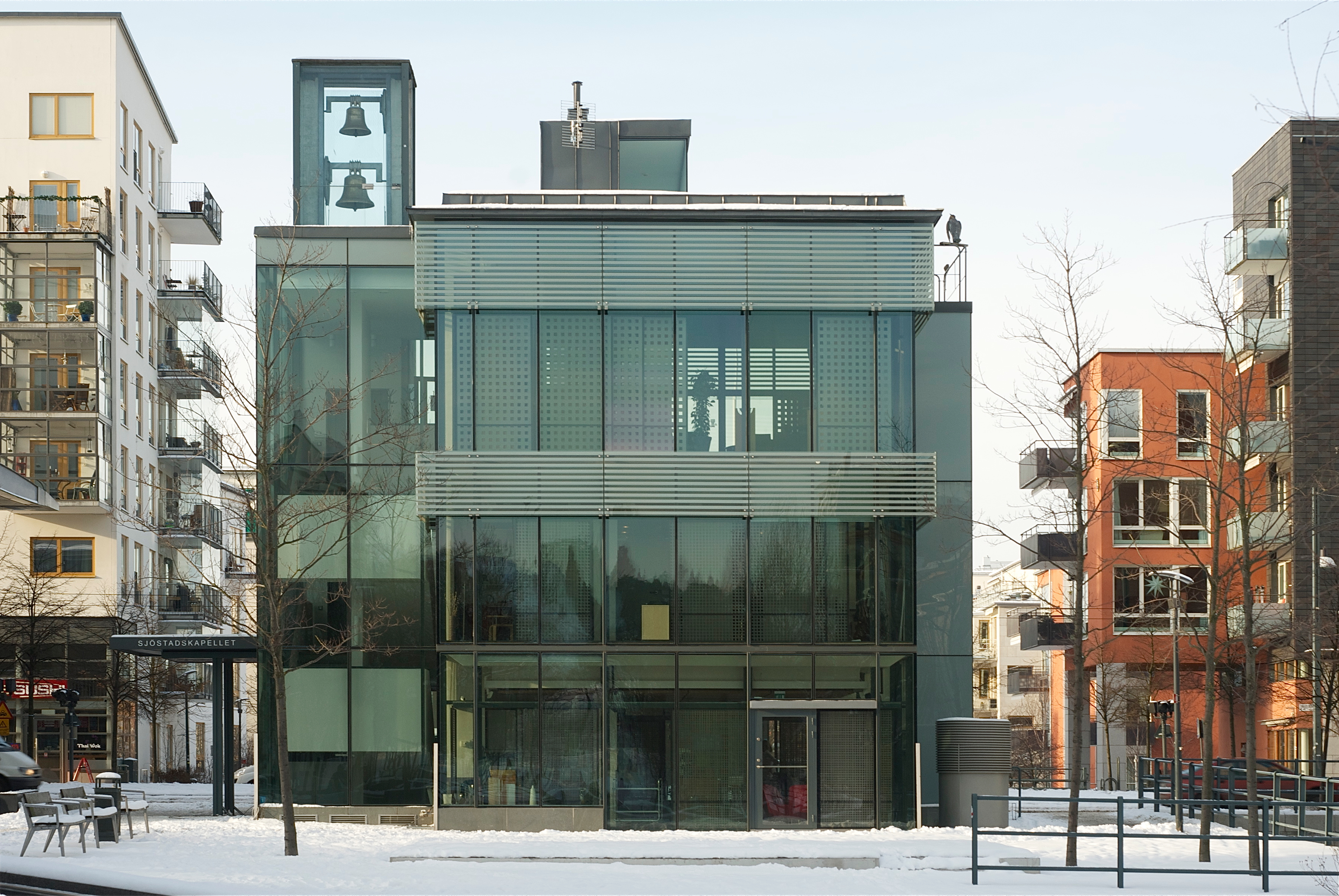 Sjöstadskapellet is a small chapel and parish hall, which belongs to Sofia parish (Church of Sweden). The chapel is located in Hammarby sjöstad, Stockholm.